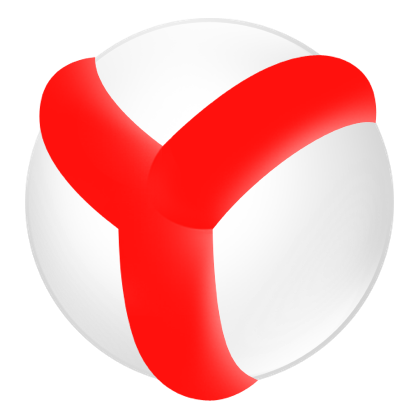 The computer icon of Yandex browser.